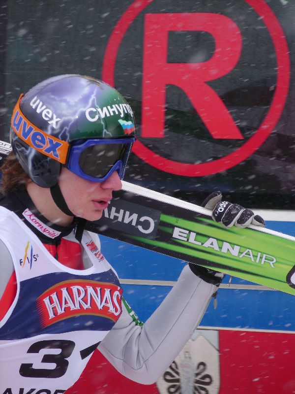 ski jumper Denis Kornilov from Russia during the World Cup in Zakopane on 27-1-2008